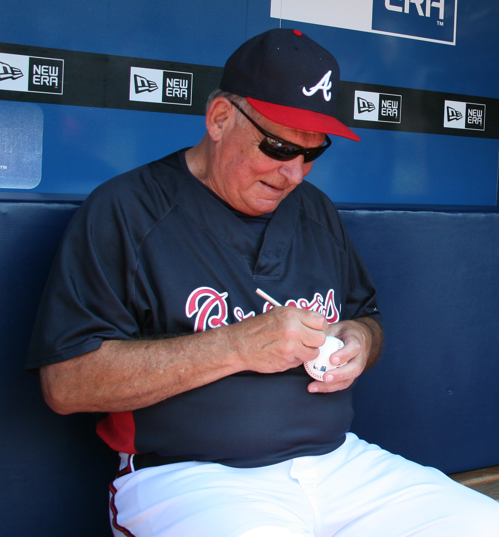 Atlanta Braves Manager Bobby Cox autographs a baseball for Army Astronaut Shane Kimbrough and his son Zack before a home game against the Boston Red Sox at Turner Field June 26. This file has been extracted from another file: Bobby Cox signs autograph.jpg